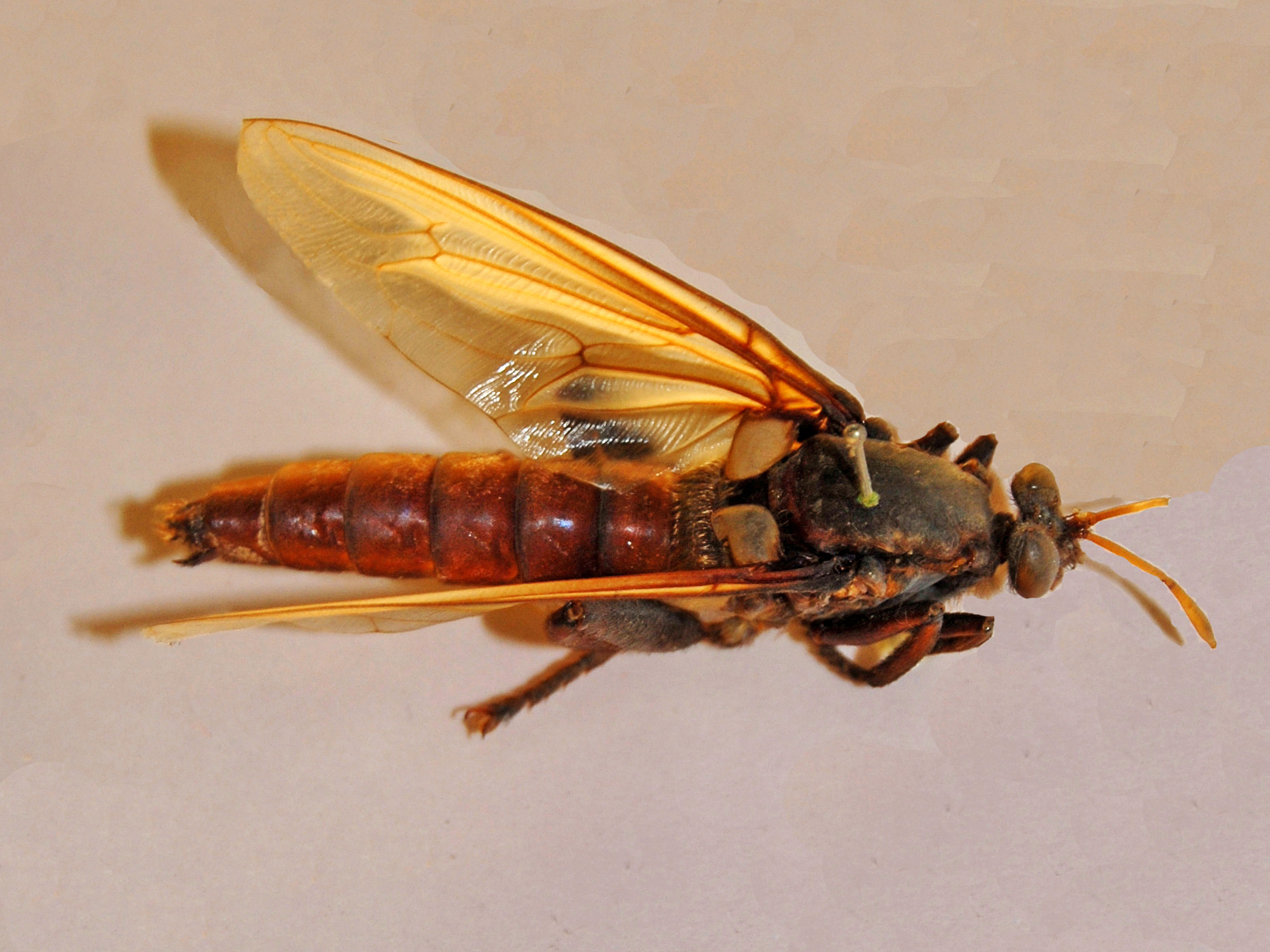 Gauromydas heros, on display at the Museo Civico di Storia Naturale di Milano